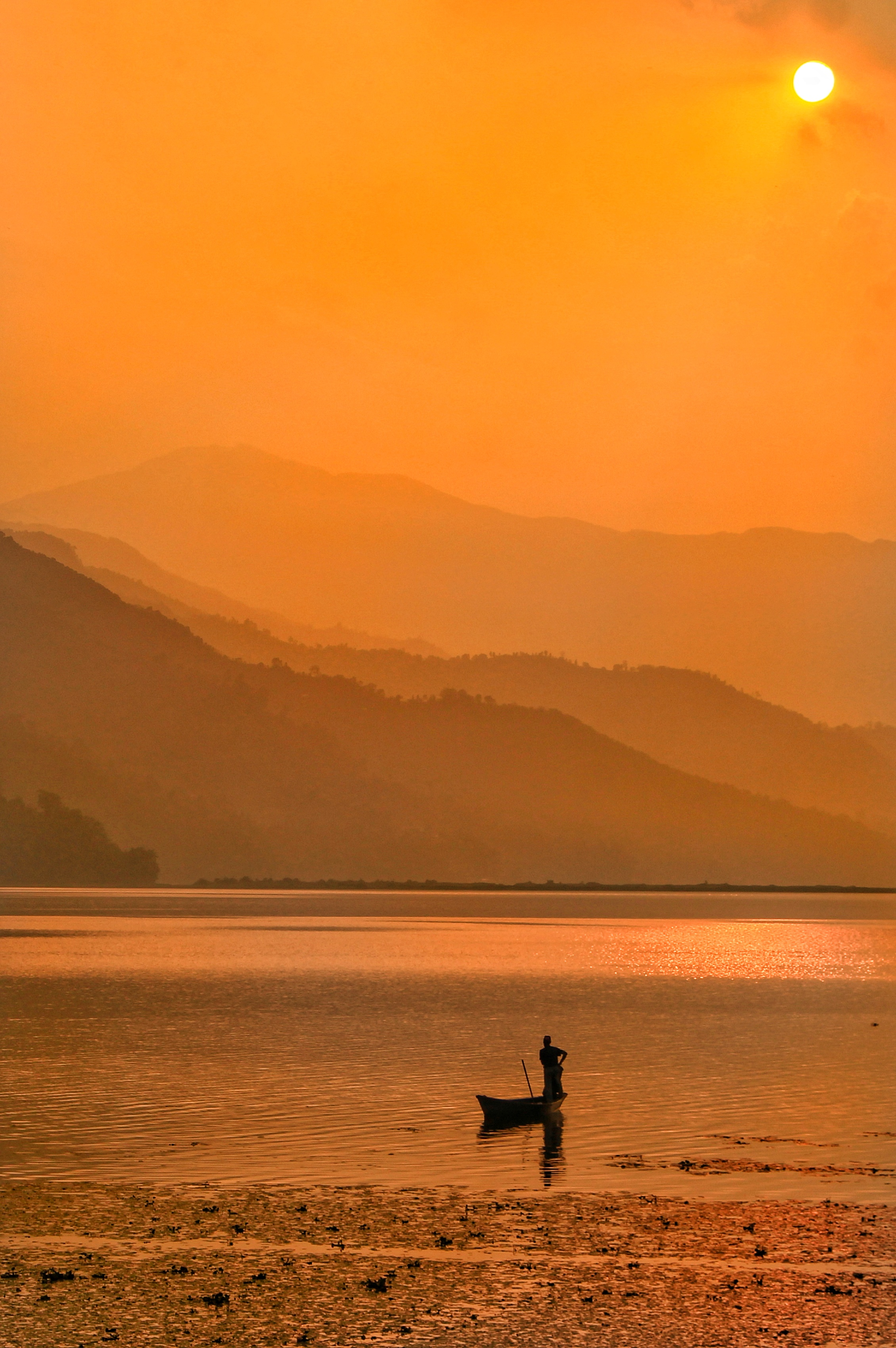 Sunsets over Phewa Lake, Pokhara